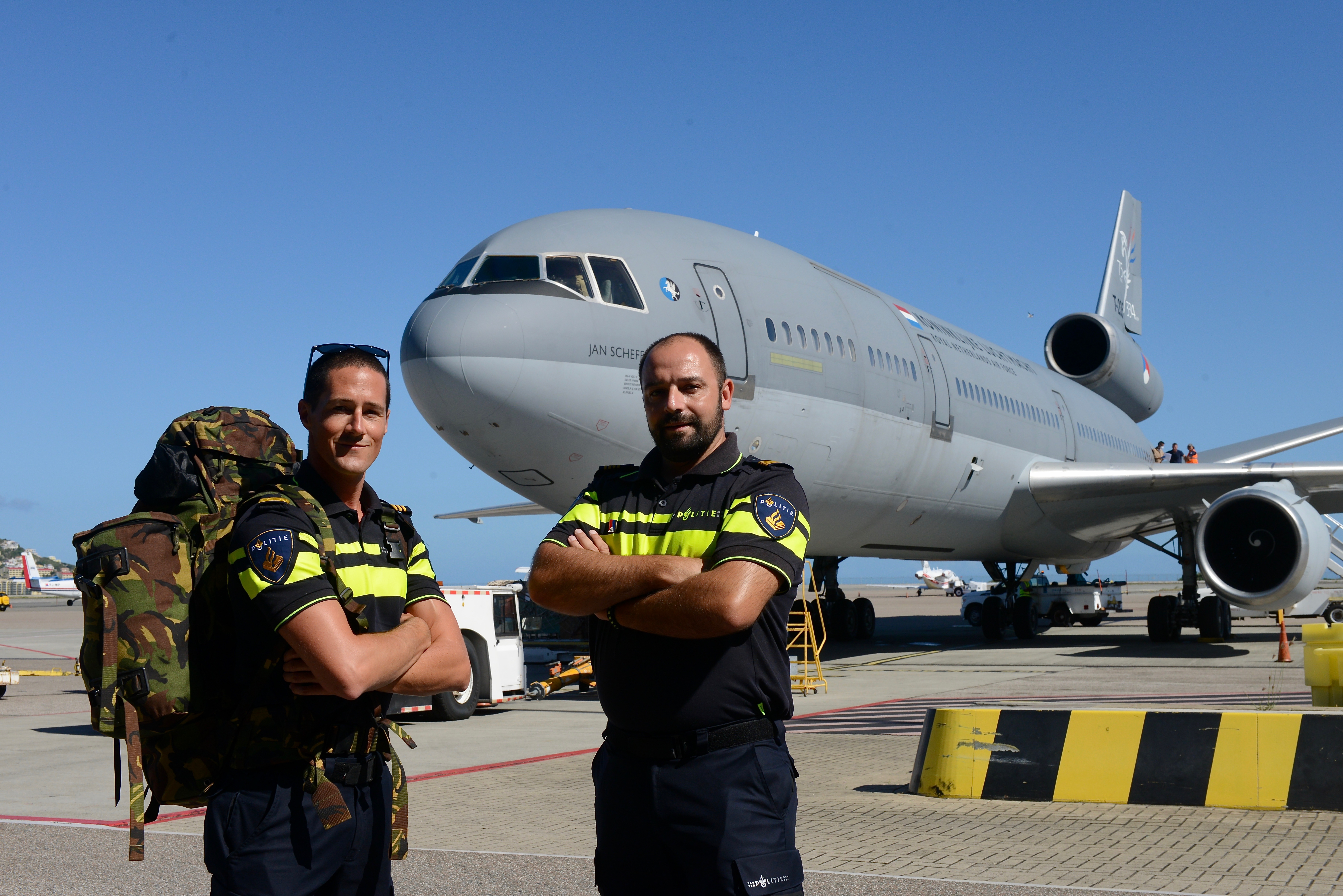 A KDC-10 transport plane of the Royal Air Force has delivered 21 Military Police and 6 National Police officers. They will probably stay for 3 months to help the local authorities maintaining order. They were requested by the Sint Maarten government.